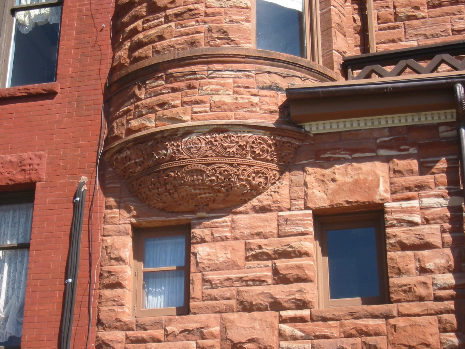 Detail of sandstone carving surrounding a window on Oliver G. Traphagen House in Duluth, Minnesota, listed on the National Register of Historic Places.